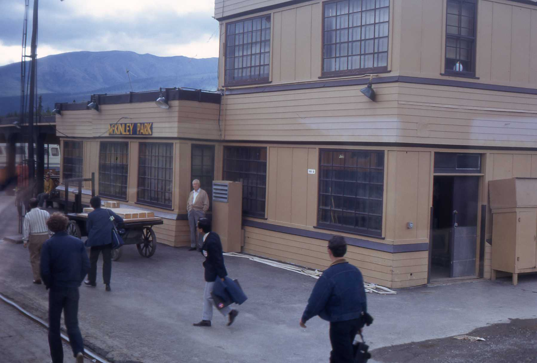 United States of America, Alaska, McKinley Park. The train station as it looked in 1972.